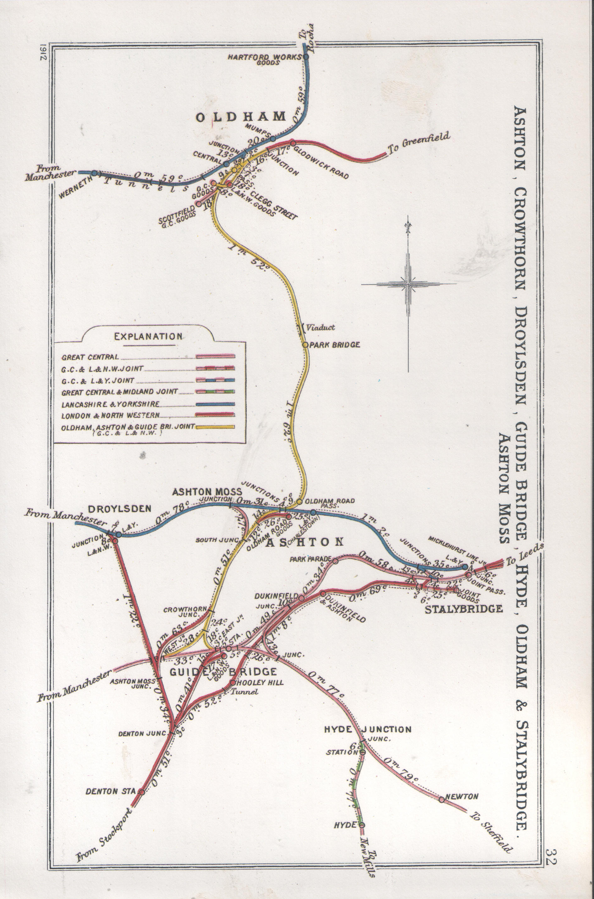 Pre Grouping railway junction around Ashton, Ashton Moss, Crowthorn, Droylsden, Guide Bridge, Hyde, Oldham & Stalybridge